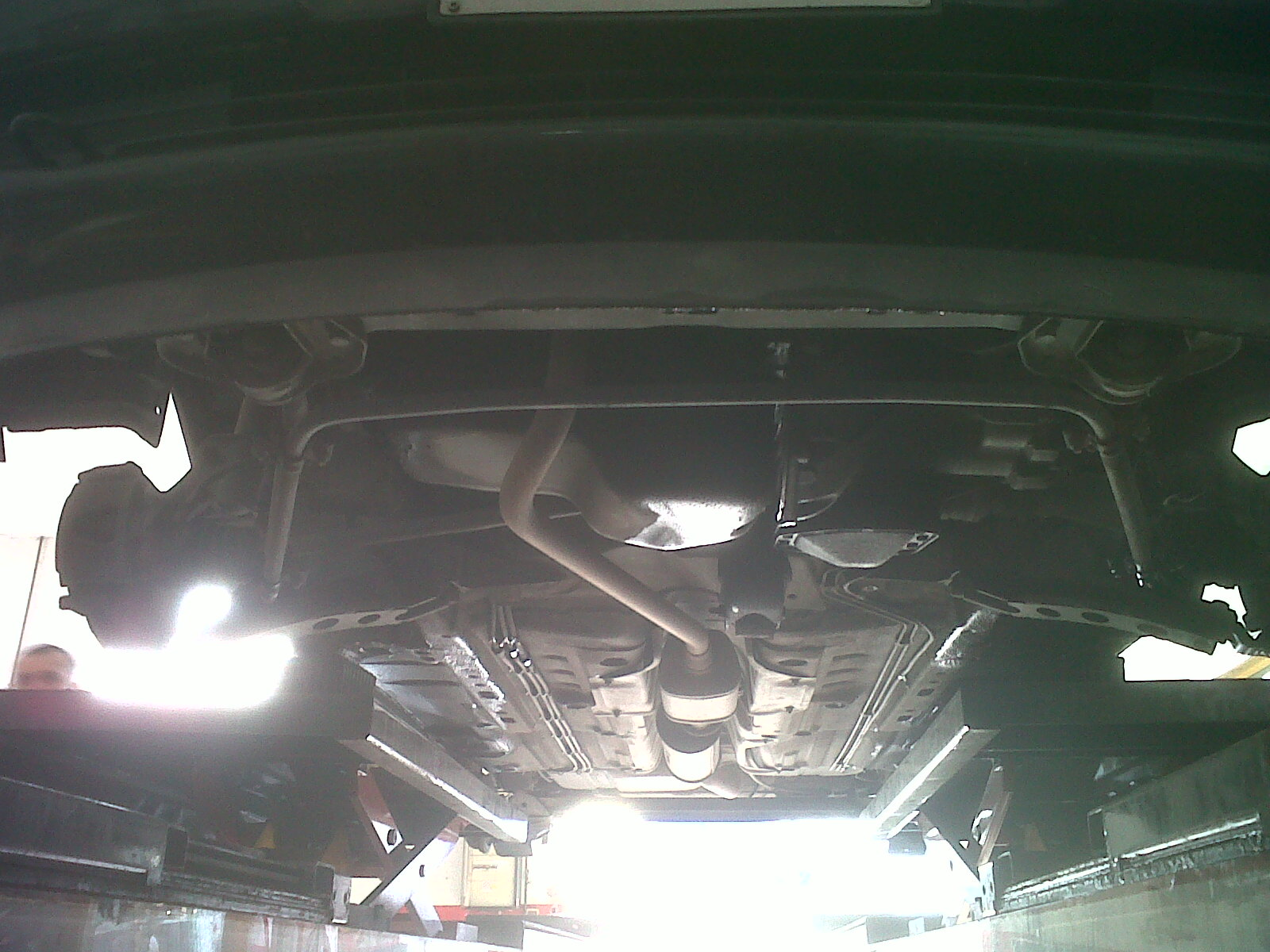 anti-roll bar of the Opel Corsa B 1200 1998 Gasoline engine x12sz